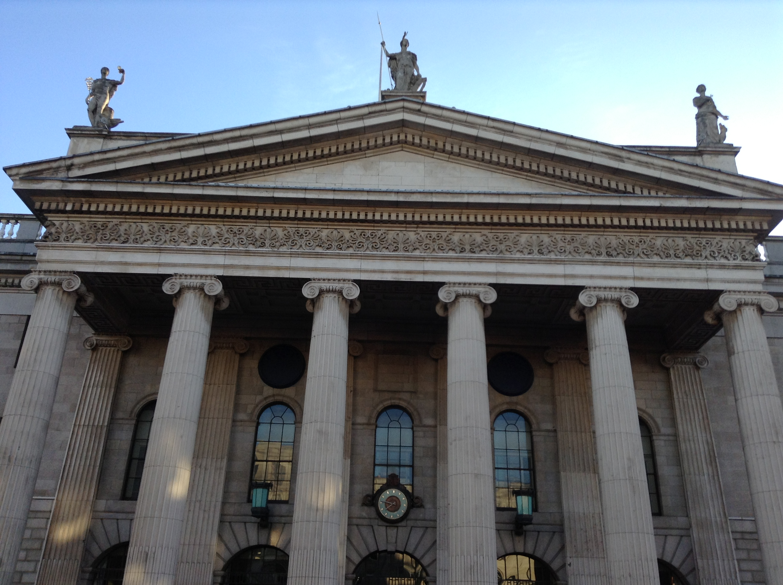 General Post Office (Dublin).